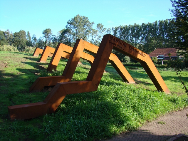 Treurniet, Bredevoort